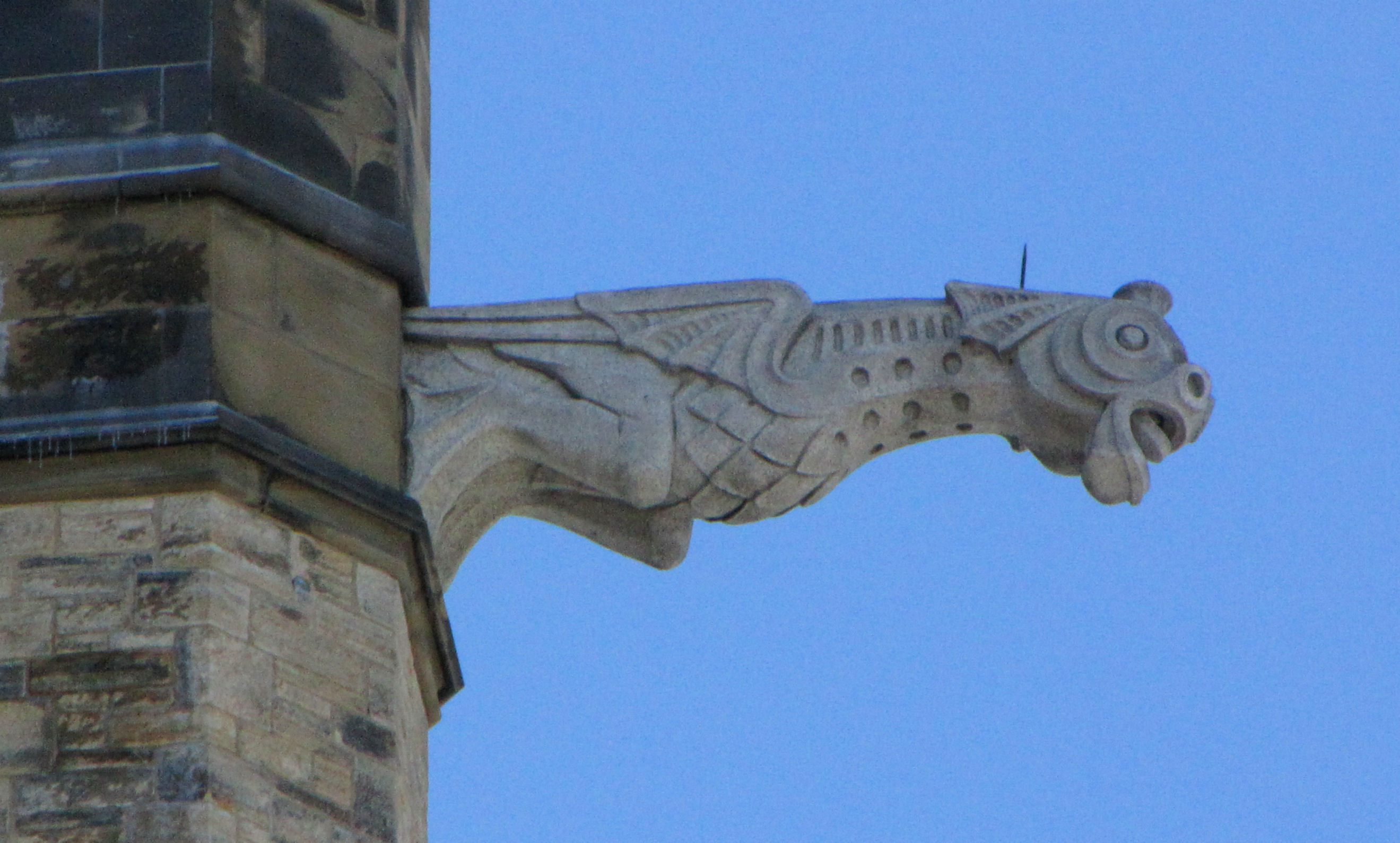 Dragon grotesque on Peace Tower of Centre Block, Parliament Hill, Ottawa, Ontario, Canada